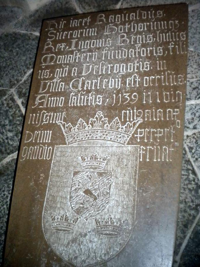 Family grave of King Ingi the Elder of Sweden (with a 16th century stone dedicated to his son Reynold) at Vreta Cloister ChurchPlace: Linköping, Sweden